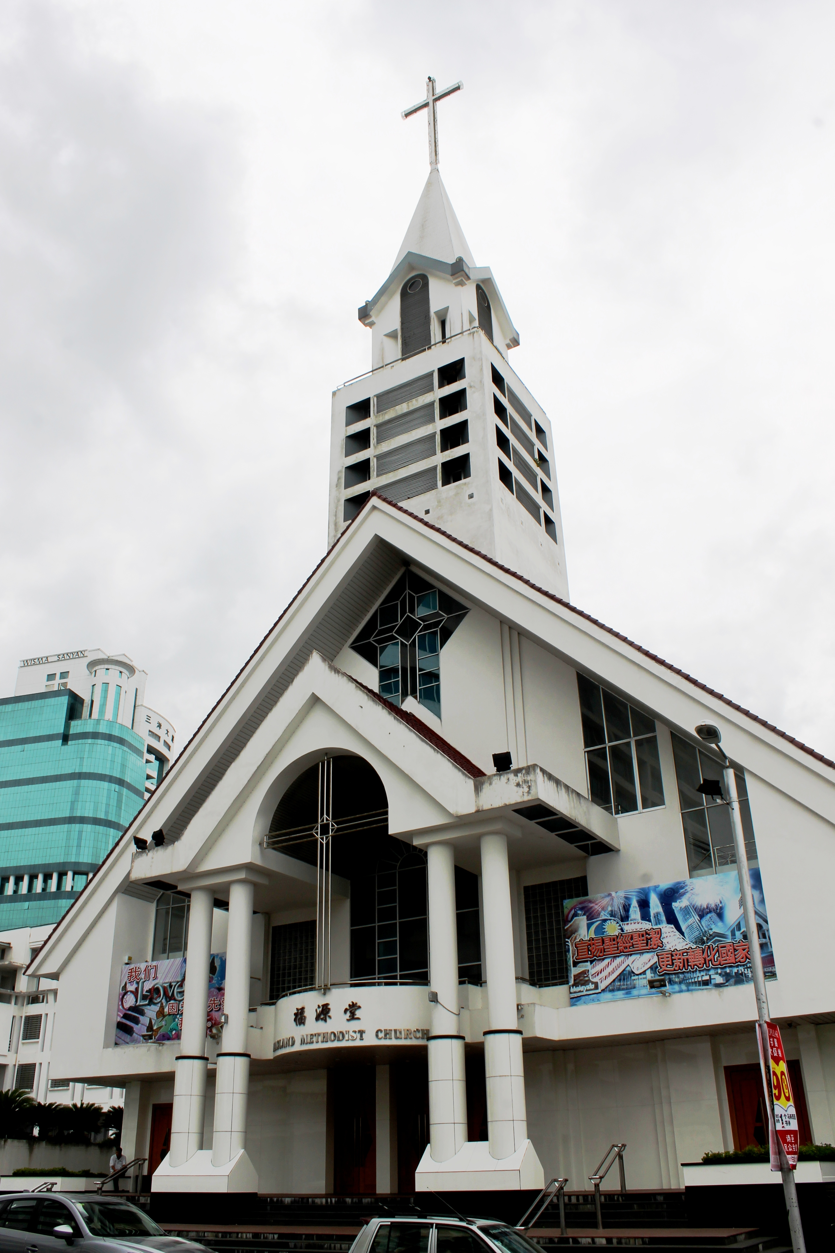 Masland Methodist Church, Sibu, Sarawak, Malaysia. Wisma Sanyan is situated in the background.